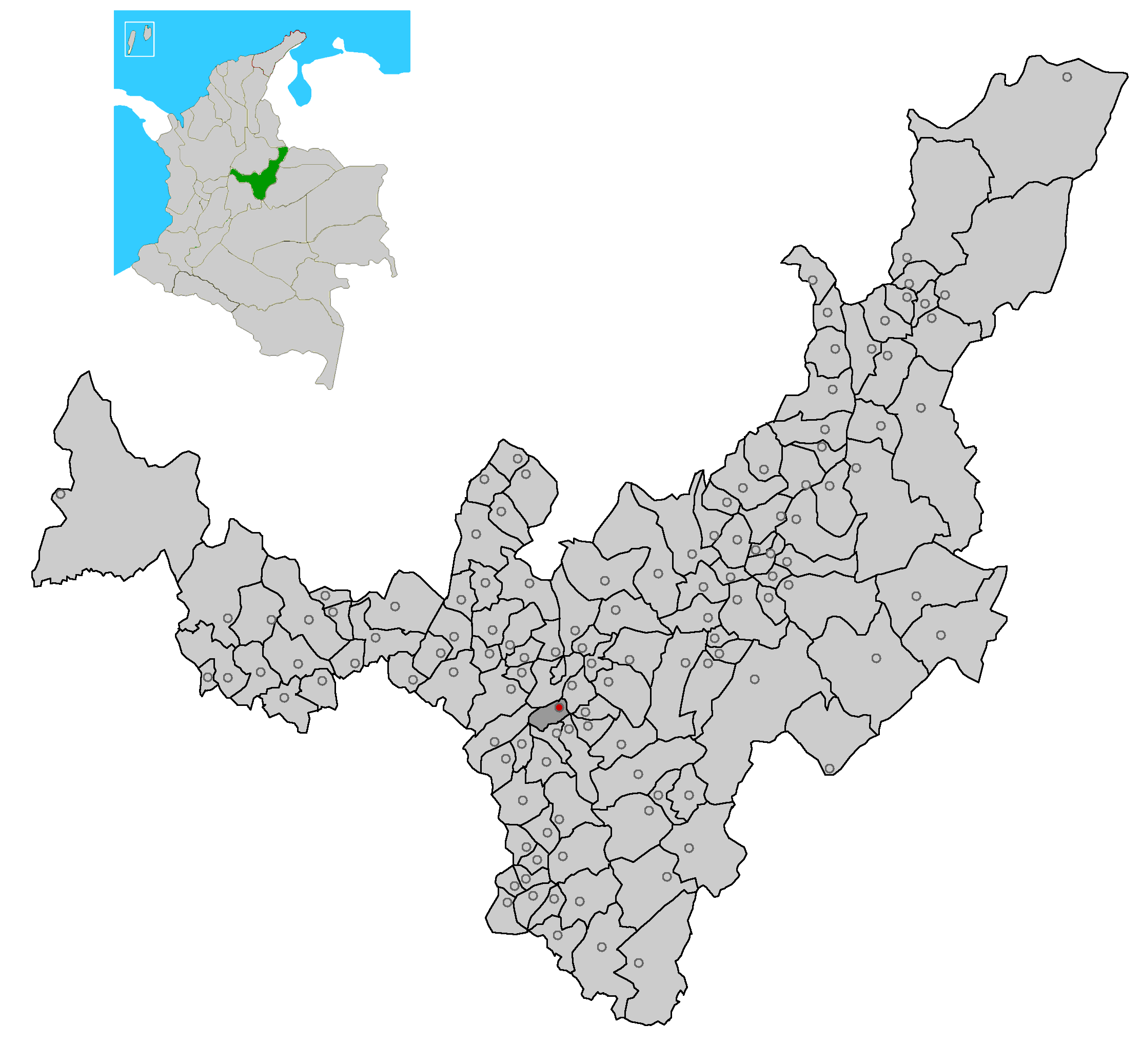 Image depicting map location of the town and municipality of Boyaca in Boyaca Department, Colombia